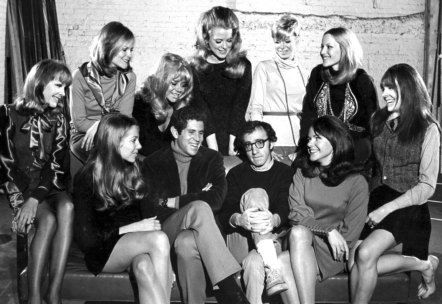 Cast photo for Broadway stage play, Play it Again Sam, starring Woody Allen and Diane Keaton. Third from left, seated, is Tony Roberts. Diane Keaton is on the far right. Original caption: "Woody Allen (glasses), Anthony Roberts, and (clockwise from Roberts) Lee Anne Fahey, Sheila Sullivan, Patti Caton, Barbara Brownell, Cynthia Dalbey, Diana Walker, Barbara Press, Diane Keaton, Jean Fowler"